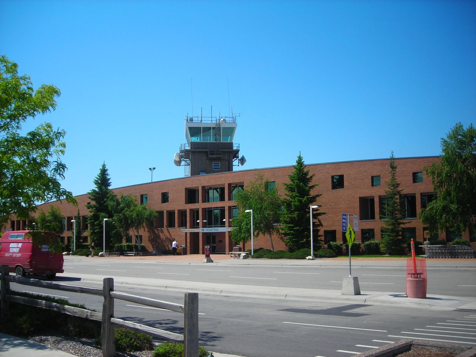 Terminal at Missoula International Airport, Montana, USA